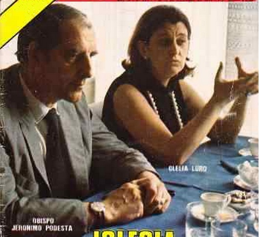 Jerónimo Podestá & Clelia Luro. Revista Panorama (frontpage).